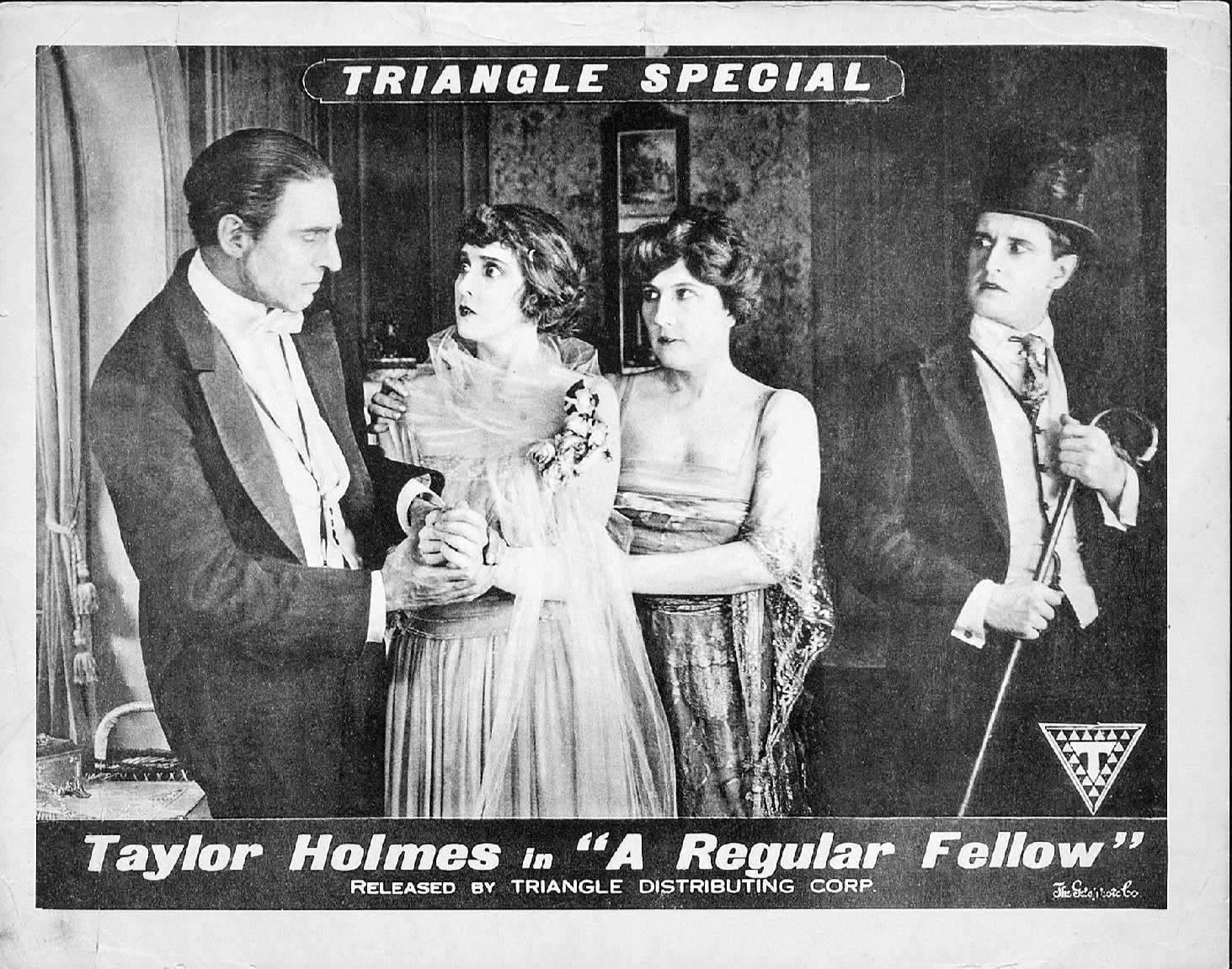 Lobby card for the American film A Regular Fellow (1919). The card has been auto corrected with minor flaws fixed.